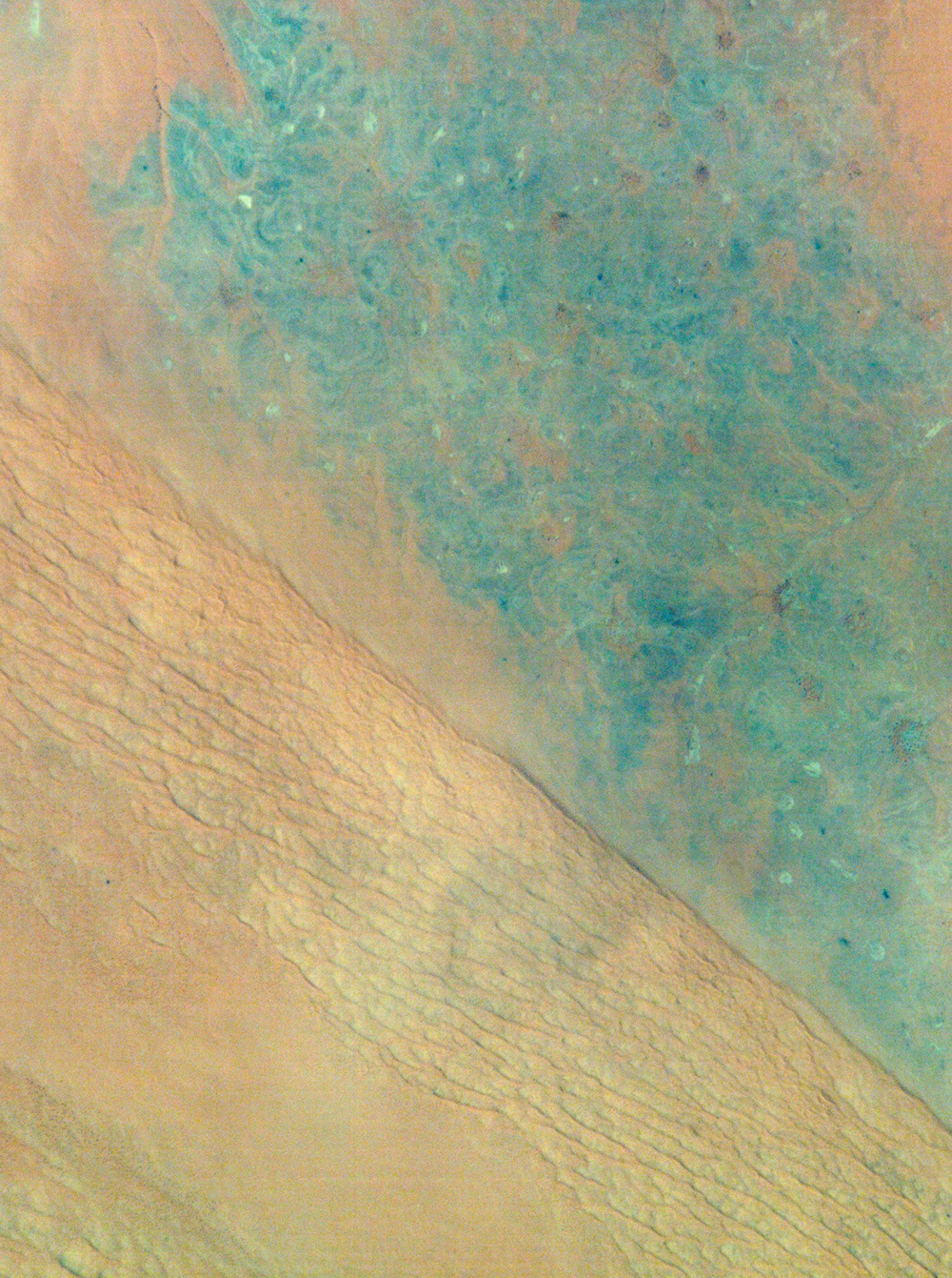 Satellite image of Al-Dahna desert in Saudi Arabia. Work of NASA.